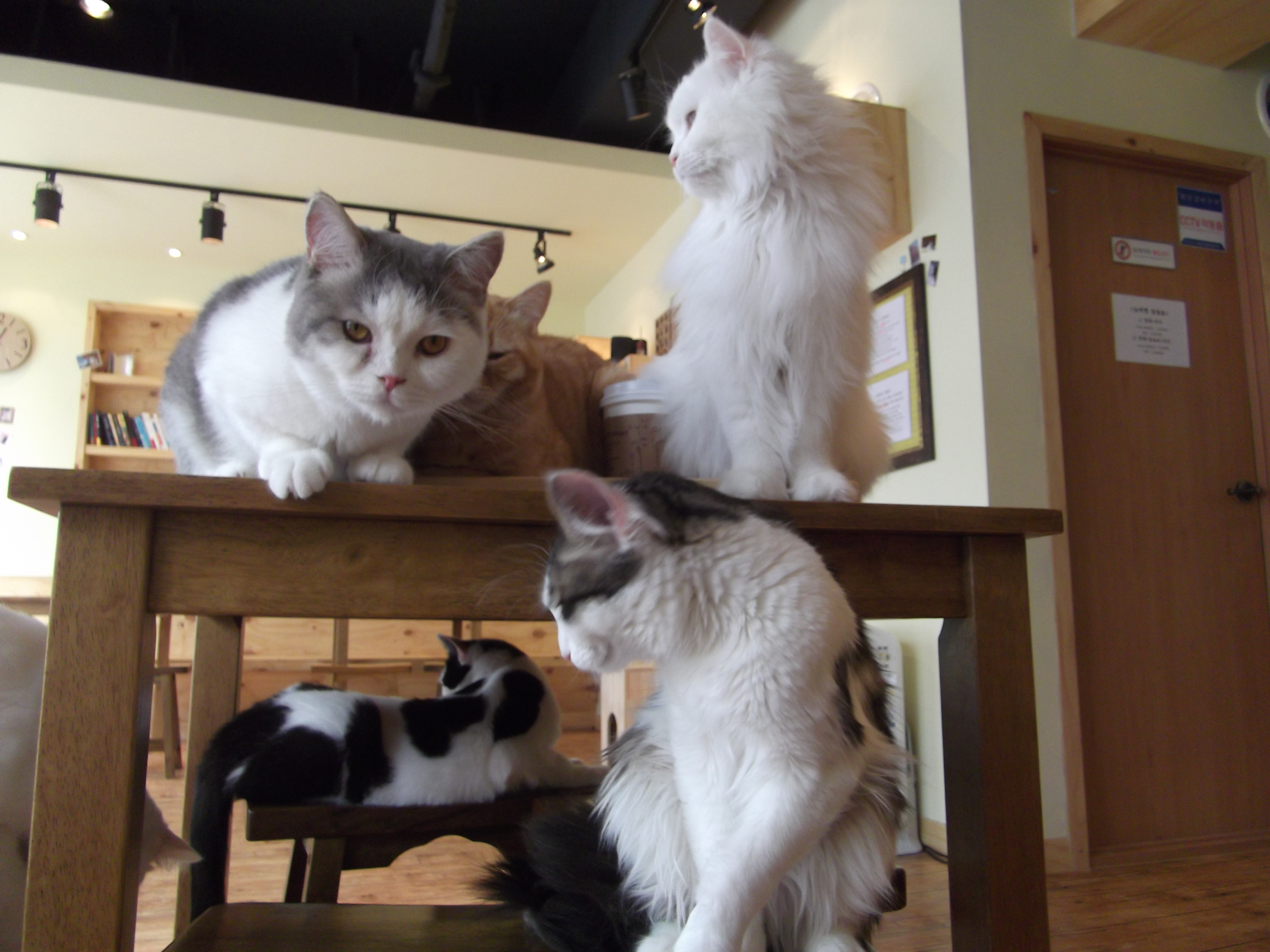 Cats assemble for treat time at Norie Cat in Cheonan, Korea.